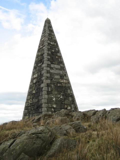 Neilson's Monument Monument to James Neilson, inventor of the hot blast process. It stands on Barstobrick Hill, on Neilson's former Queenshill estate near Ringford, Kirkcudbrightshire. The pyramid stands 35 feet high and was erected by Neilson's son, Walter Montgomerie Neilson, in 1883. Text on front reads: NEILSON HOT BLAST 1828 Text on rear reads: 1883 W. M. N. FECIT